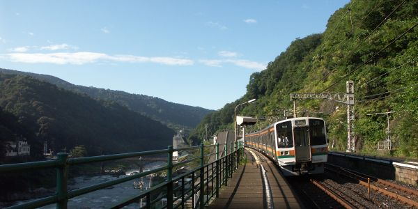 Jokoji Station on the Chuo Main Line, in Tamanocho, Kasugai City, Aichi Prefecture, Japan